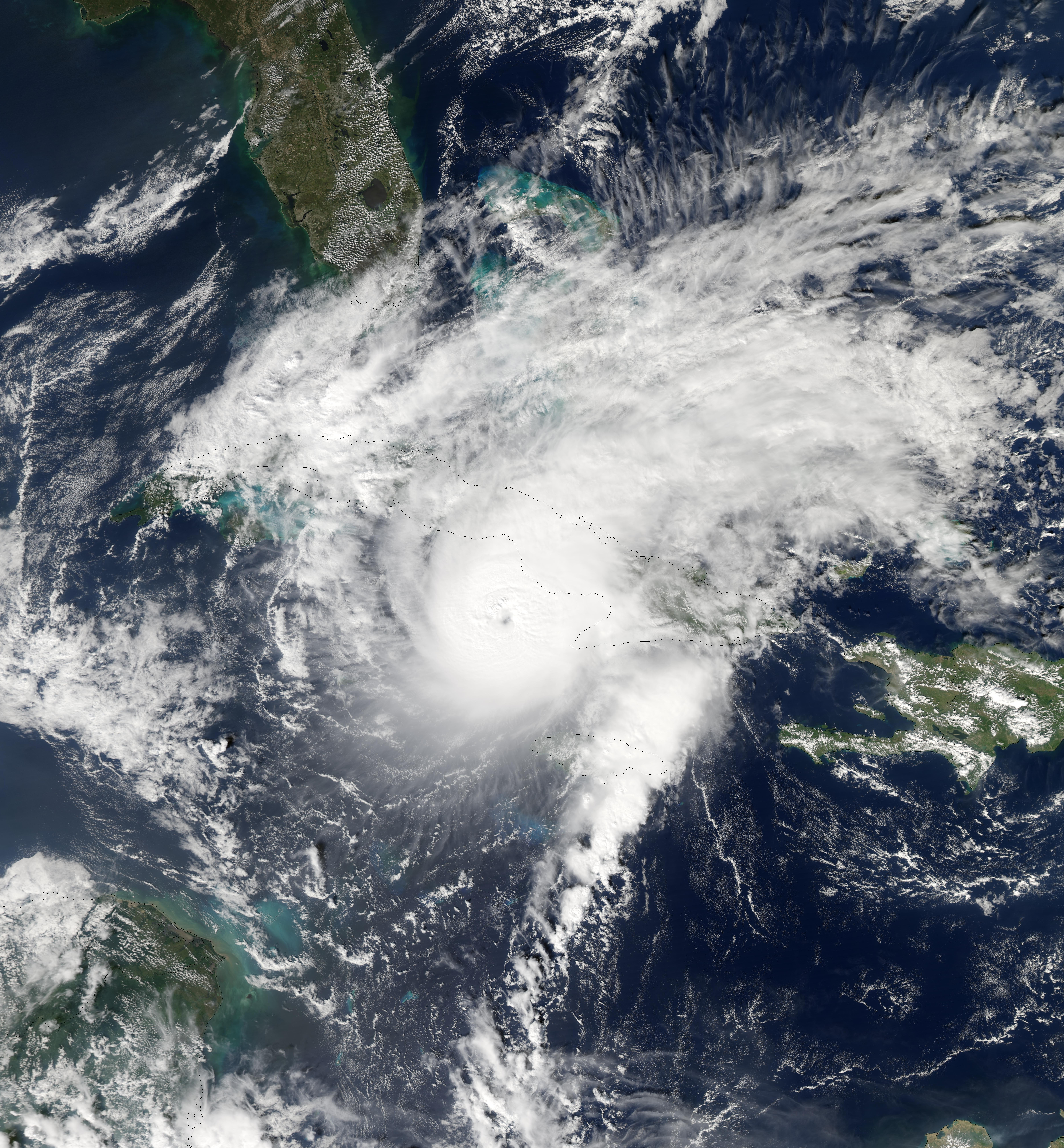 Hurricane Paloma approaching Cuba, as seen by NASA's Aqua satellite.